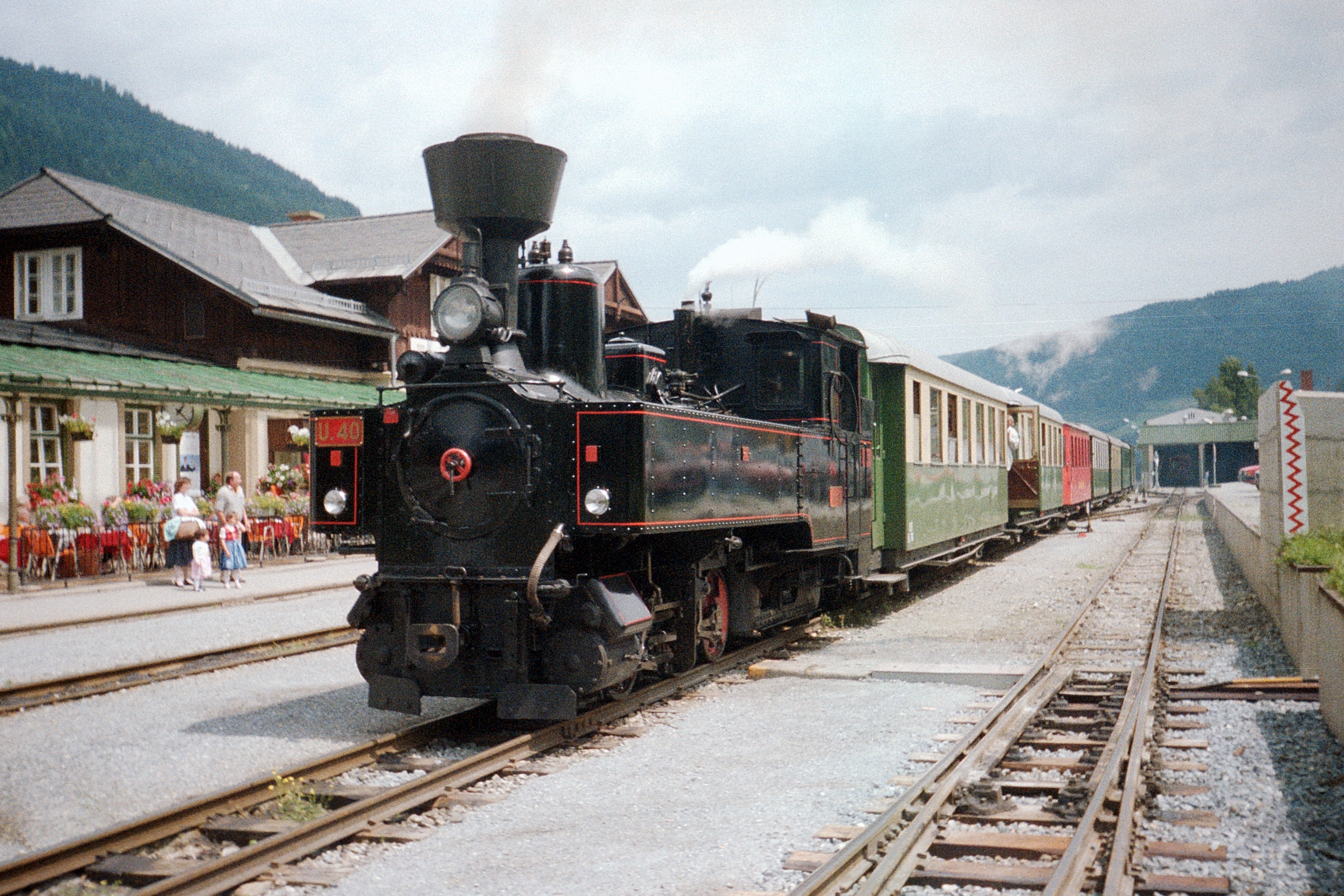 Murtalbahn tourist train with locomotive U.40 at Murau station. (scan from film)